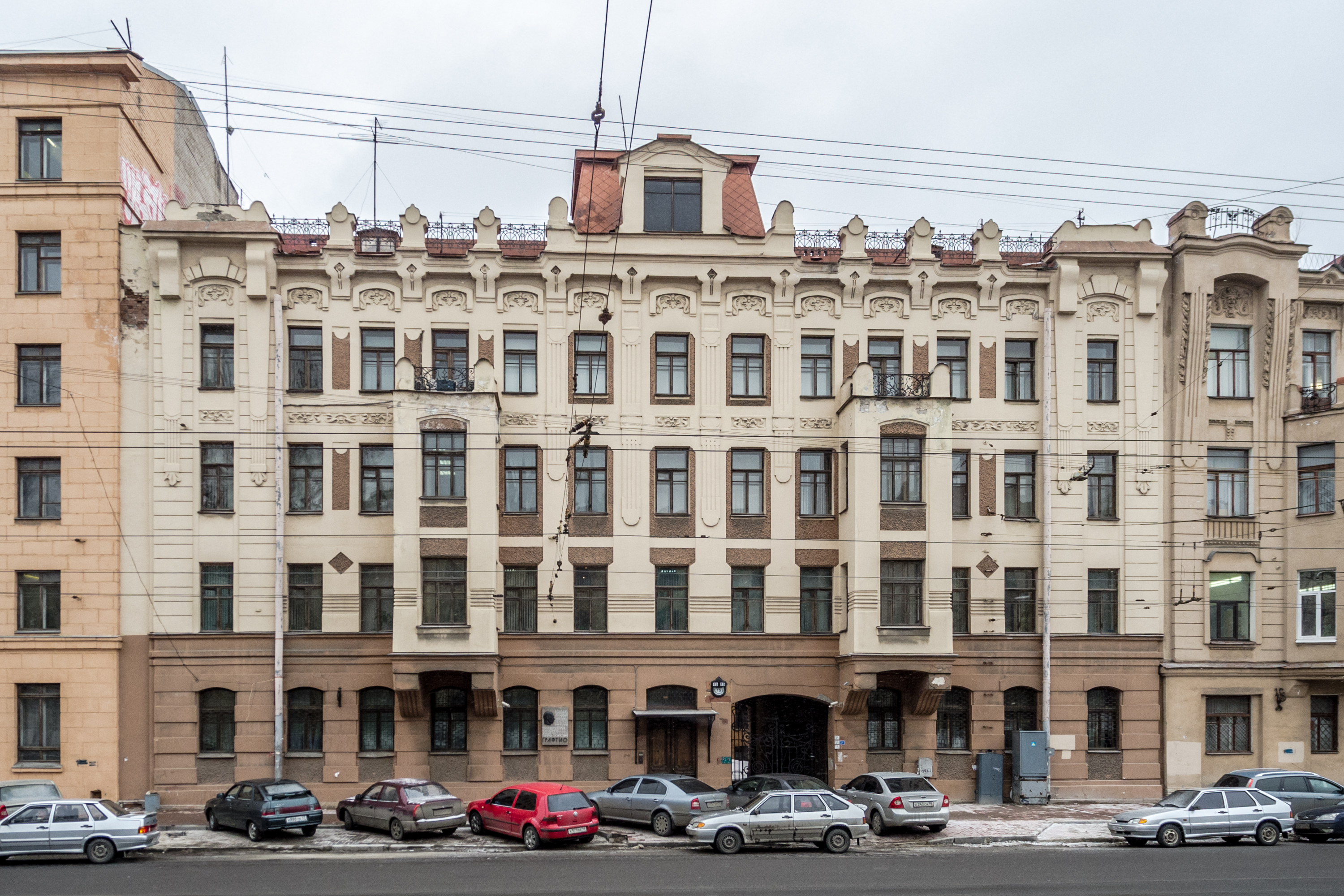 15, Dobroljubova avenue, Saint Petersburg